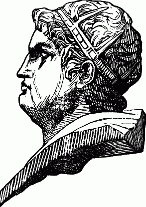 Nero